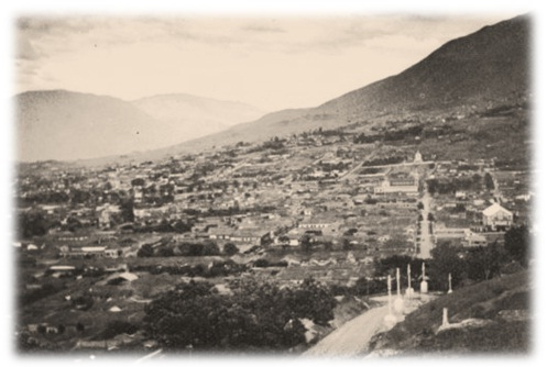 Atardecer en Medellín (1849) por Gerardo Emilio San clemente Zárate